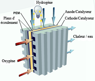 PEMFC scheme from WP en translated to french by Grimlock 19:58, 13 November 2006 (UTC)